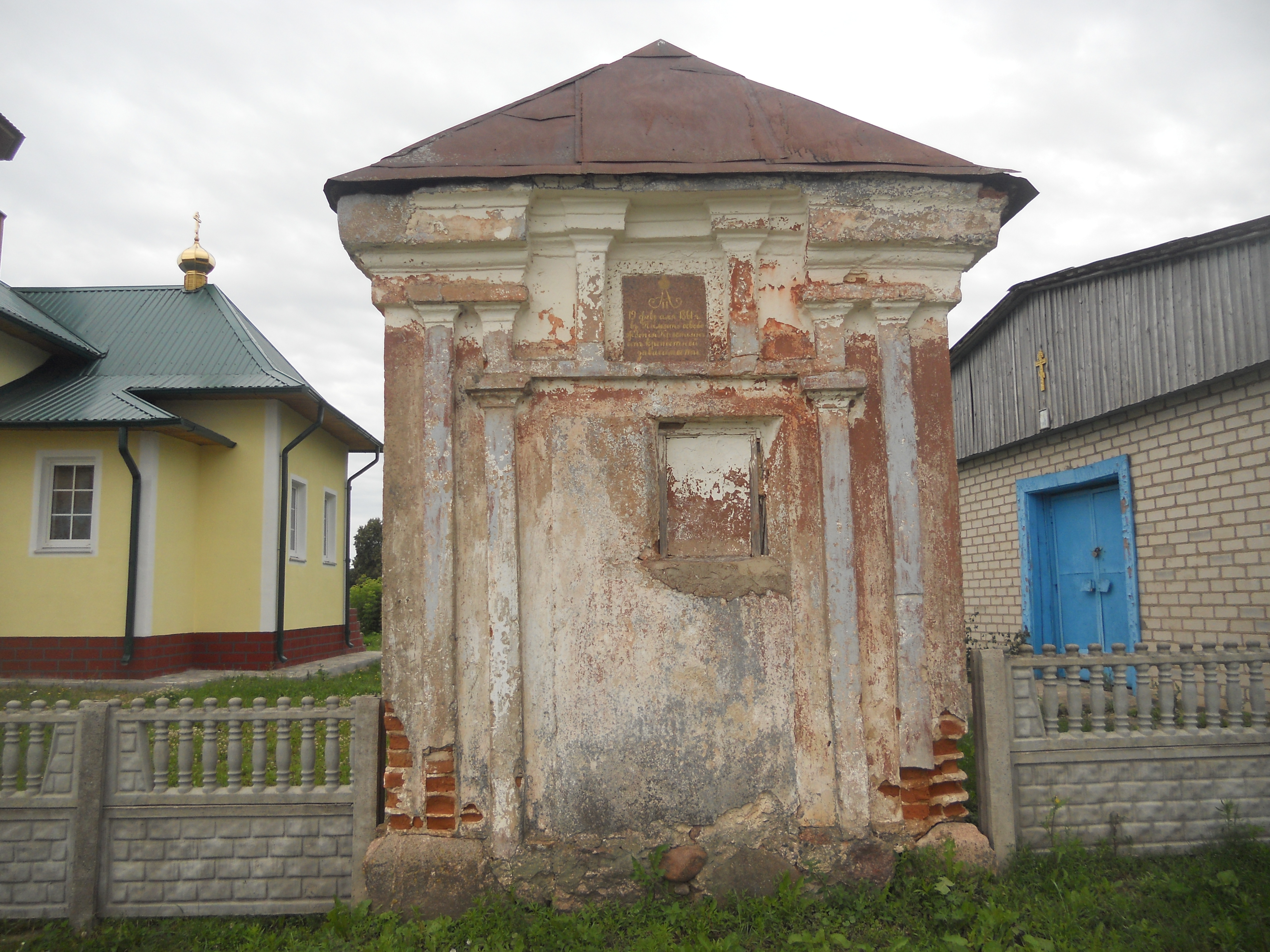 Memorial chapel in Tsimkovichi